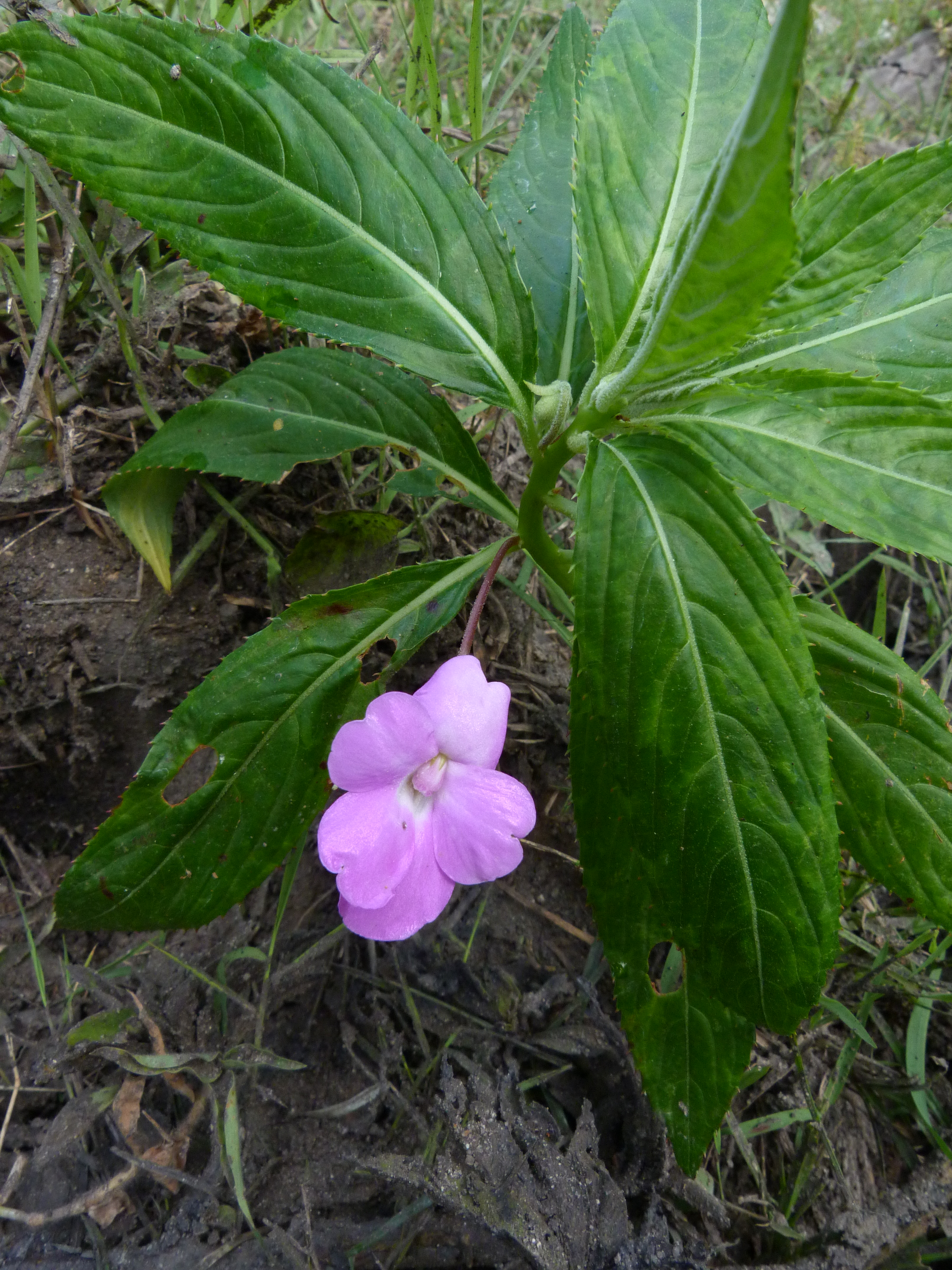 Impatiens irvingii at Mkuju River, Selous GR (Tanzania)